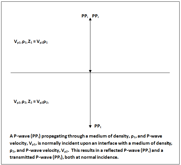 Diagram shows the reflected and transmitted raypaths from a P-wave normally incident upon an interface.